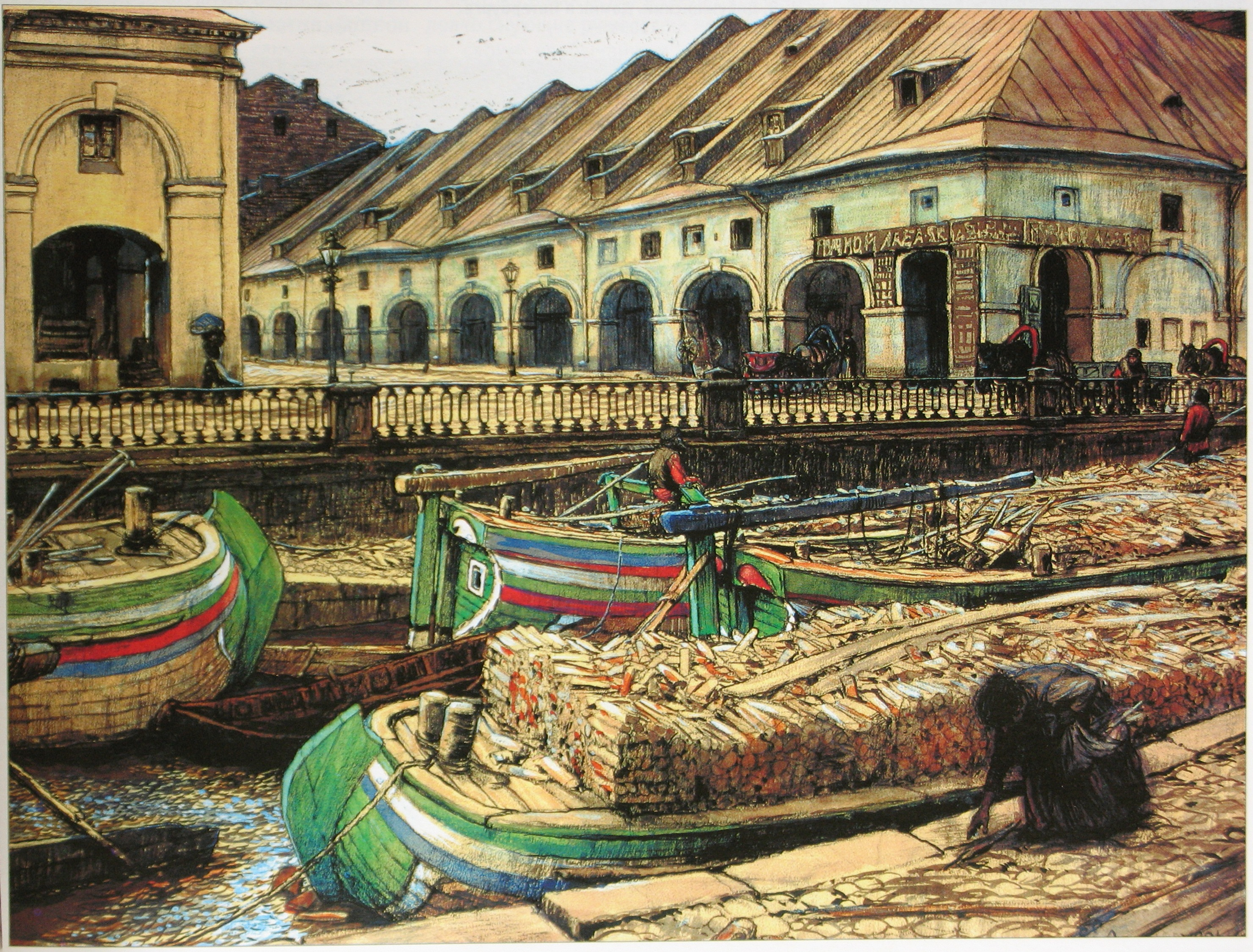 Nikolsky Rynok in SPb (1901) by Eugene Lanceray.